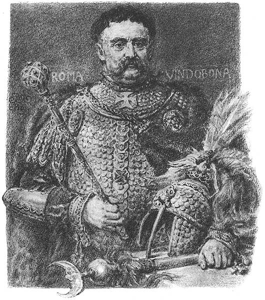 Jan Sobieski, portraited in a parade scale armour - today in the Dresden Armory.